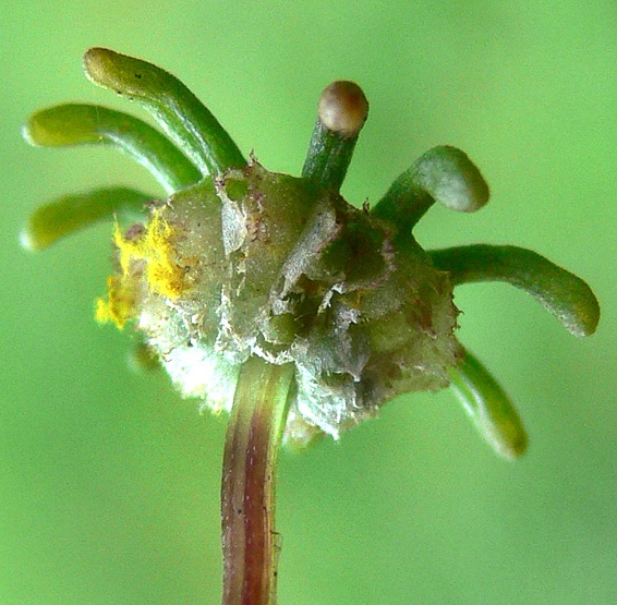 Marchantia polymorpha